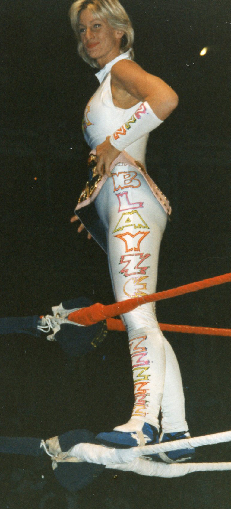 Alundra Blaze as WWF Women's Champion. Taken June 22, 1995 at London's Royal Albert Hall.